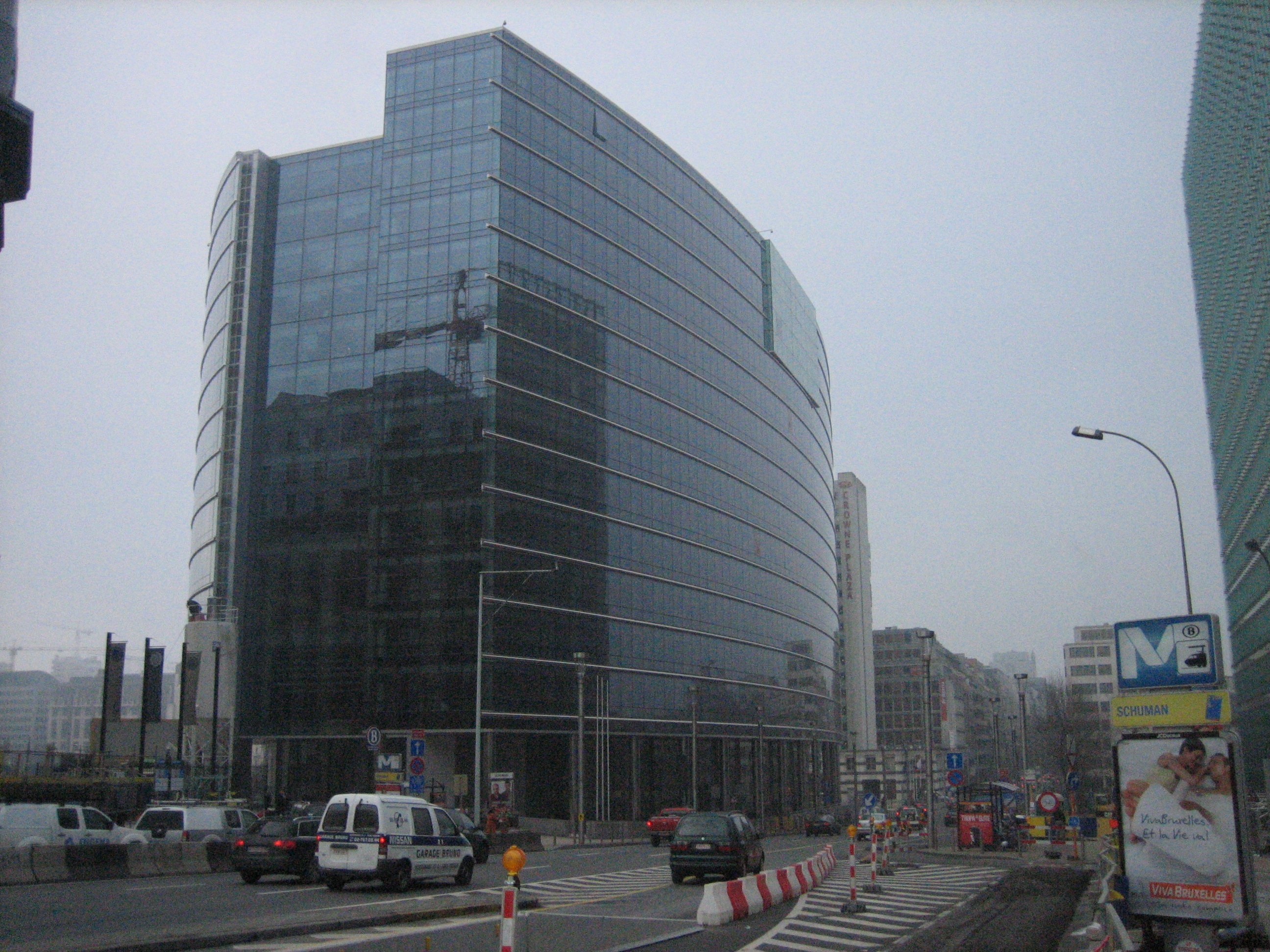 Lex building of the Council of the European Union, seen from the north.